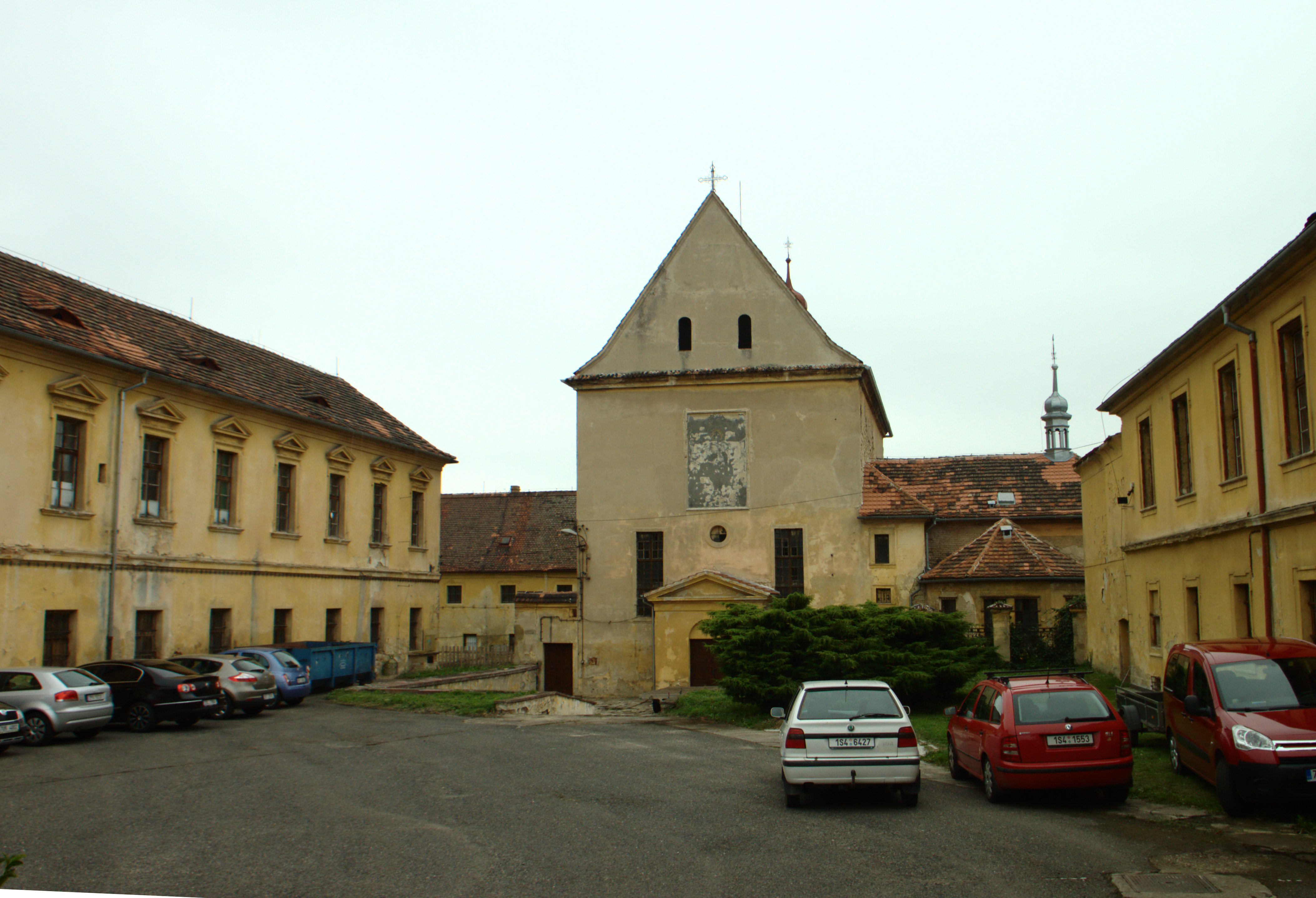 Capucine monastery in Roudnice nad Labem, Ústí Region, CZ